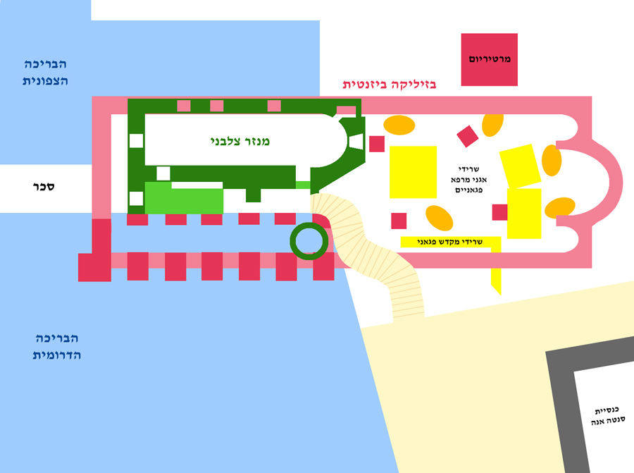 A map showing the excavations in the Pools of Bethesda, Jerusalem Israel, showing the Northern Pool (upper left, separated by a dike (white horizontal bar) from the) Southern Pool (lower left) Crusaders' Chapel (inside the dark green contour) Roman wall (pink square above the Crusaders chapel?) Byzantine Basilica (thick pink church contours) Baths (small pink ellipses and small red squares) Roman Temple (not indicated here) Crusaders' St. Ana-church (lower right). Green thick circle??